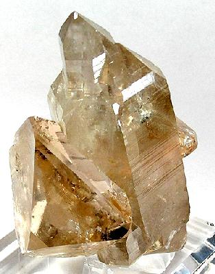 Quartz, Topaz Locality: Pondaw, Mogok, Burma Size: cabinet, 11 x 8 x 6 cm Topaz on Quartz This dramatic cabinet specimen is from the collection of Bill Larson, who has almost certainly amassed during his travels for gems and minerals there over the last 15 years the best suite of minerals out of modern Burma (obtained before the US government embargo, of course). He pulled this from the collection for me as a favor, as I thought I had a customer who would love it for their own collection. I was wrong about that for some reason, but that doesn't mean the piece is slighted at all. It is , I think, a spectacular matrix topaz and quite unlike any similar beastie from Pakistan. I have seen so many topaz crystals from Mogok, and no good ones on matrix for sale in a decade ...at least, nothing that compares to Pakistani material in overall quality. THIS ONE, however, compares to the best of Pakistani material but has strikingly unique aestehtics both to the quartz and the topaz crystals which are of "burma style" crystallization (different terminations, when you compare closely). The rightmost topaz is 6 x 4.5 x 3 cm, and the lefthand topaz is 5 x 5 x 3.5 cm in size. The topaz crystals have a pale champagne color to them, and are exceptionally gemmy (like glass!). The quartz and topaz are both lustrous...and the quartz is also as clear as can be, so that you can look right trough it. Damage is confined to a VERY small ding on the quartz termination (rear-left), and to contacting in the back of the topaz crystals. The front display face is pristine.